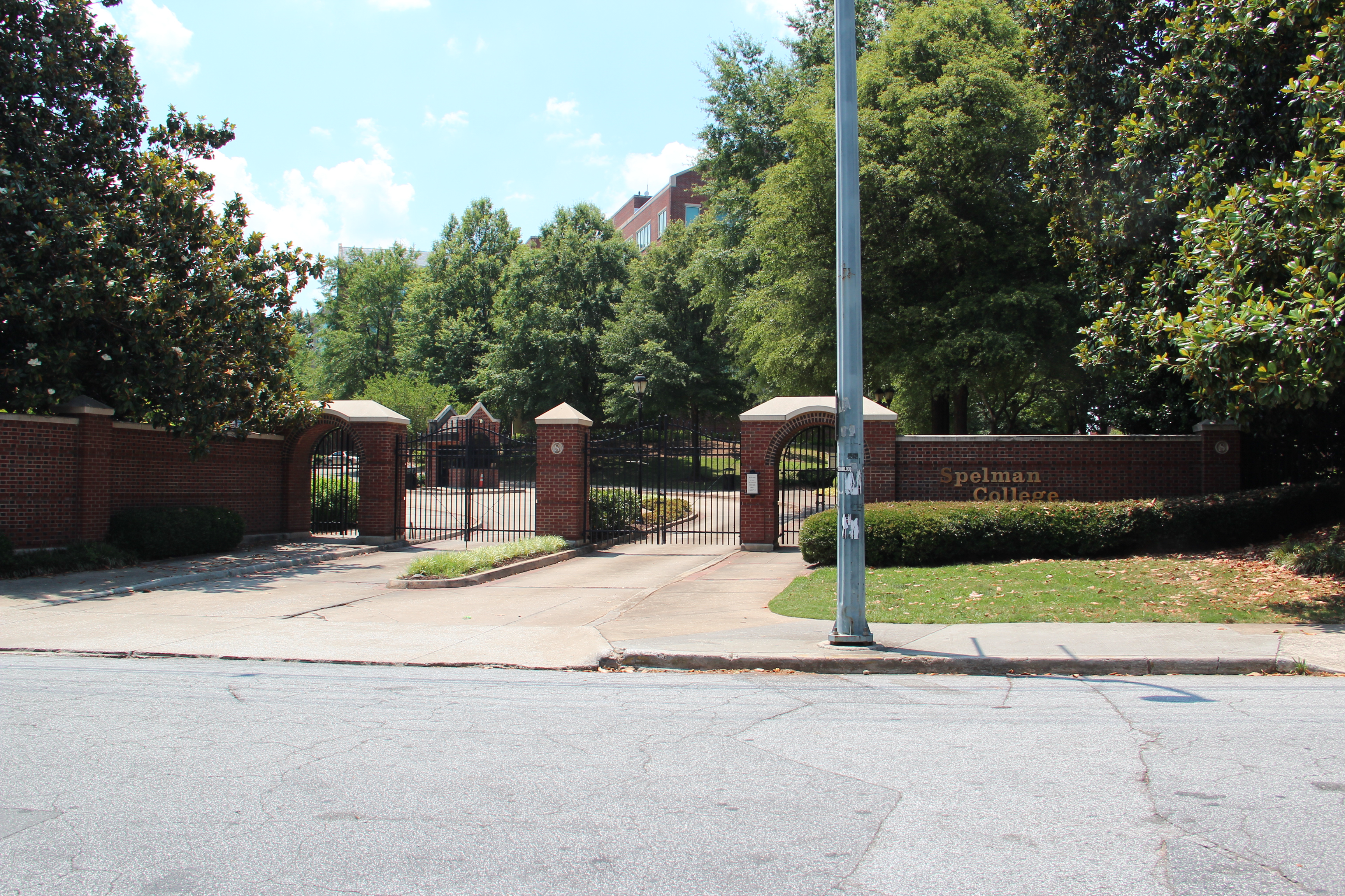 Gates of Spelman College